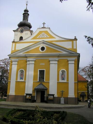 Church in Croatia